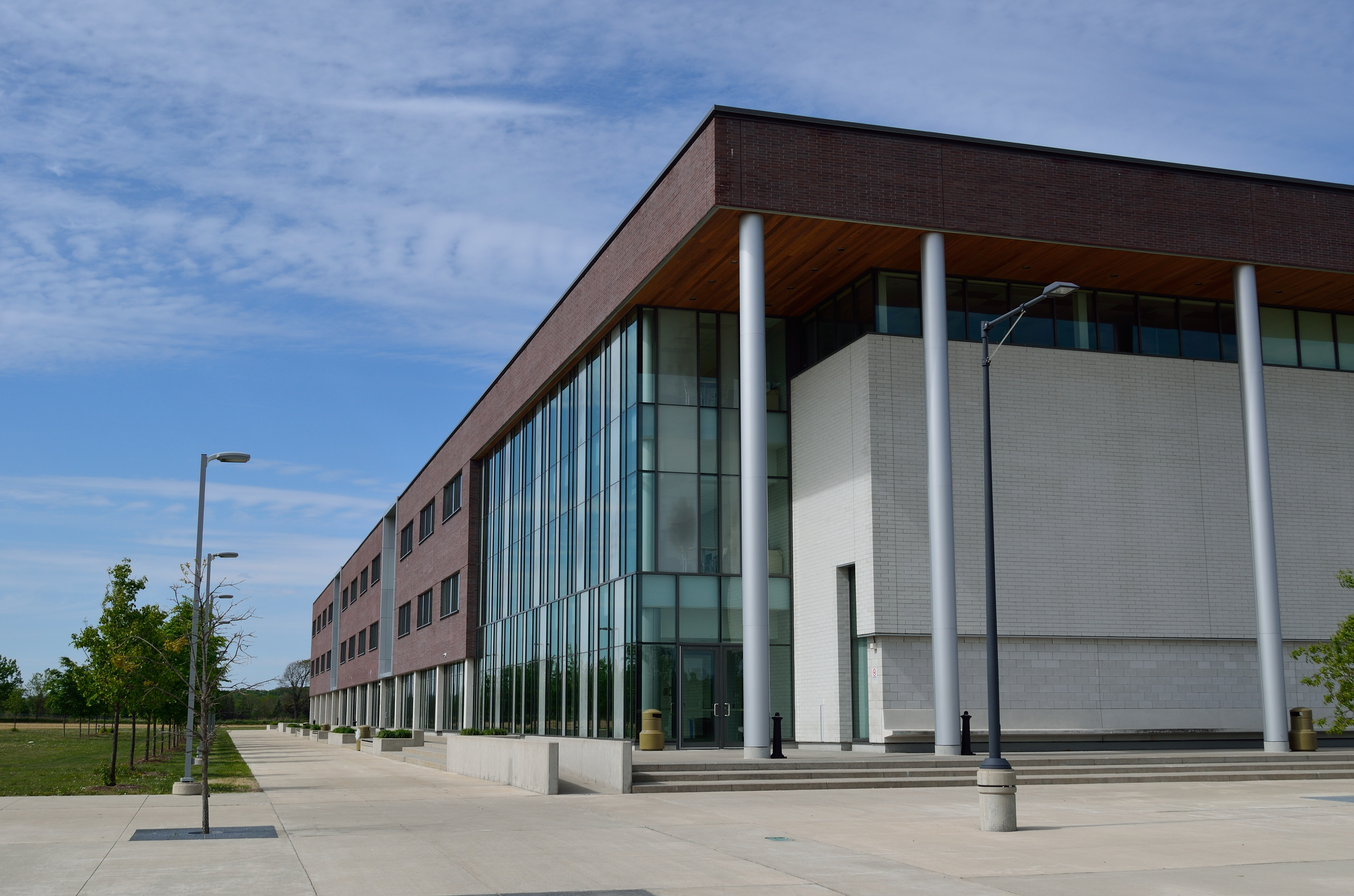 Conestoga College Cambridge campus